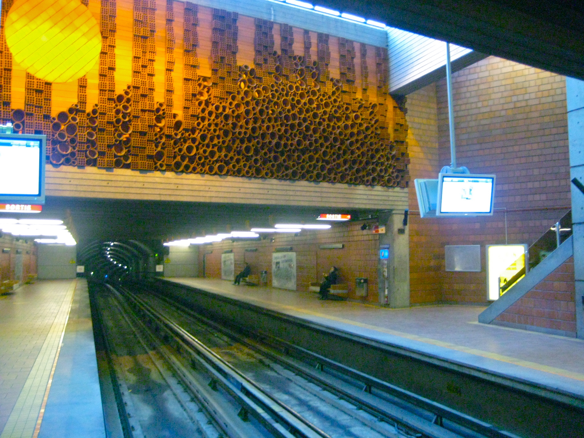 Université-de-Montréal Metro station platform